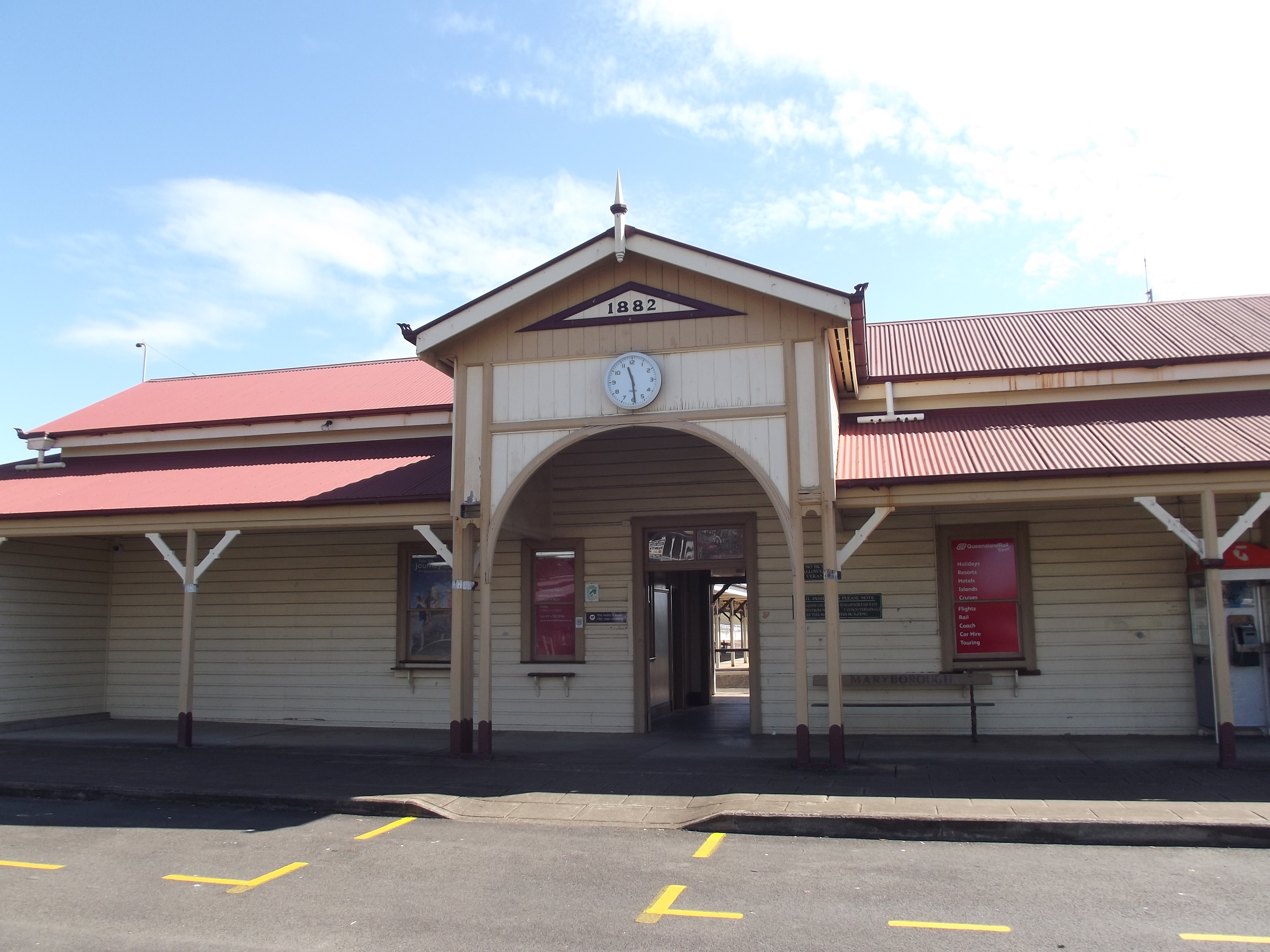 A photo of the Maryborough railway station, operated by Queensland Rail, located in Fraser Coast, Australia.